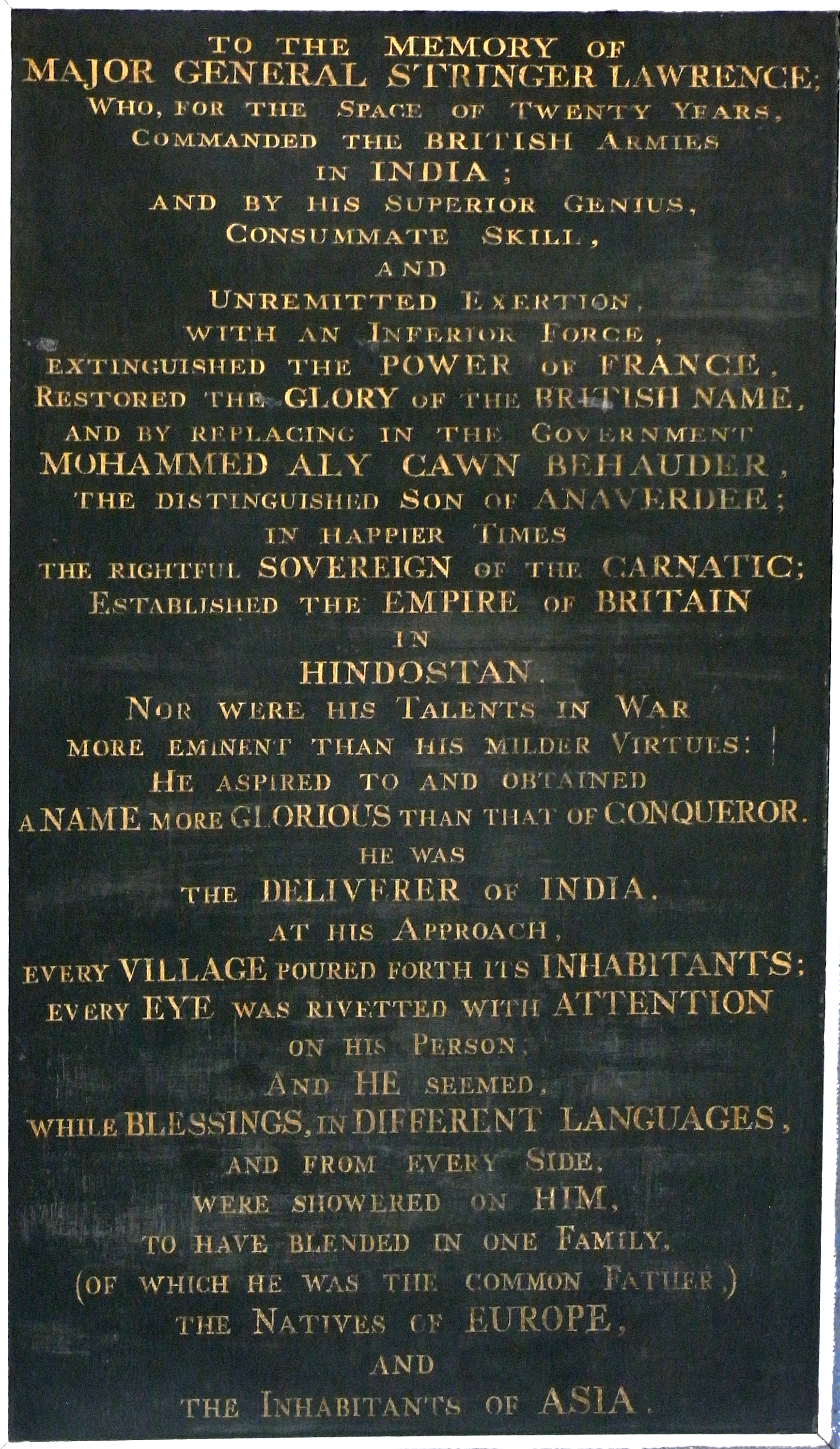 Biographical tablet (1 of 3) dedicated to General Stringer Lawrence (1697-1775), erected on the Haldon estate in 1788 together with the "Lawrence Tower" (alias "Haldon Belvedere") in which it is housed, in his memory by his friend Sir Robert Palk, 1st Baronet (1717-1798), of Haldon House, Dunchideock, Devon. Text: "To the memory of Major General Stringer Lawrence who for the space of twenty years commanded the British armies in India and by his superior genius, consummate skill and unremitted exertion, with an inferior force, extinguished the power of France, restored the glory of the British name and by replacing in the government Mohammed Aly Cawn Behauder, the distinguished son of Anaverdee, in happier times the rightful sovereign of the Carnatic, established the Empire of Britain in Hindostan. Nor were his talents in war more eminent than his milder virtues: he aspired to and obtained a name more glorious than that of Conqueror. He was the Deliverer of India. At his approach every village poured forth its inhabitants, every eye was rivetted with attention on his person and he seemed, while blessings in different languages and from every side were showered on him, to have blended in one family (of which he was the common father) the natives of Europe and the inhabitants of Asia".